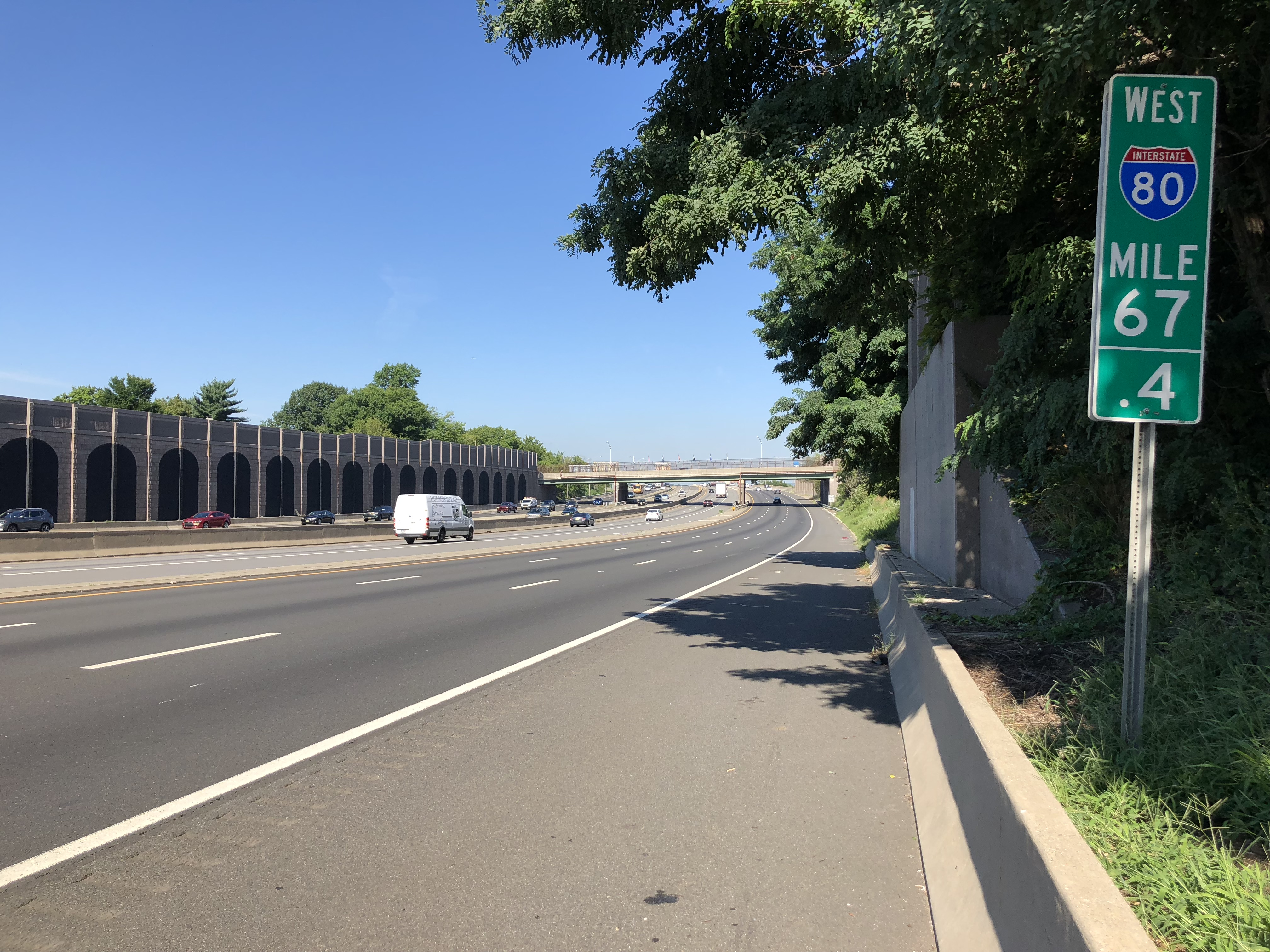 View west along Interstate 80 (Bergen-Passaic Expressway) between Interstate 95 and Exit 66 in Bogota, Bergen County, New Jersey